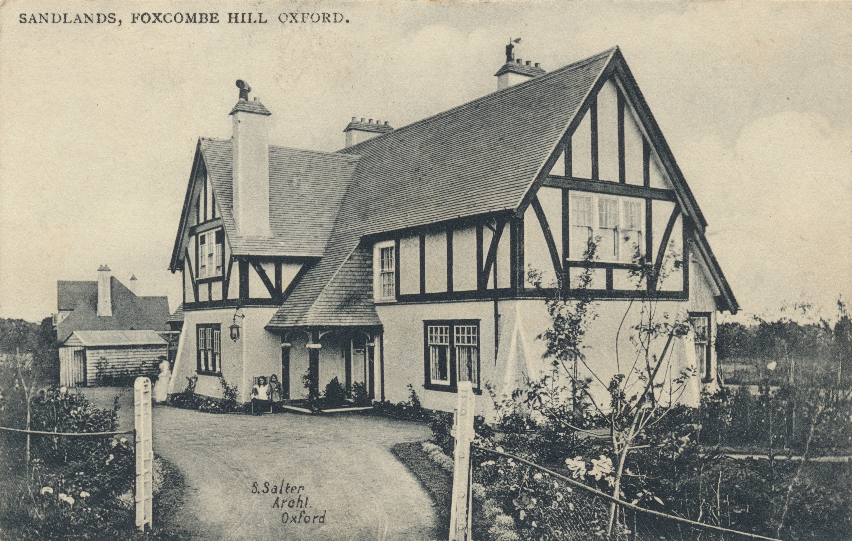 The lady to the left is probably the architect's wife Florence, and the girls his daughter Ina (b.1894) and Joan (b.1901)